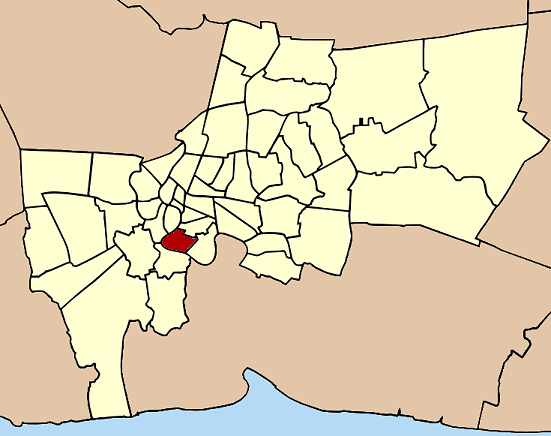 Map of Bangkok, Thailand, highlighting the district (khet) Bang Kho Laem (บางคอแหลม)